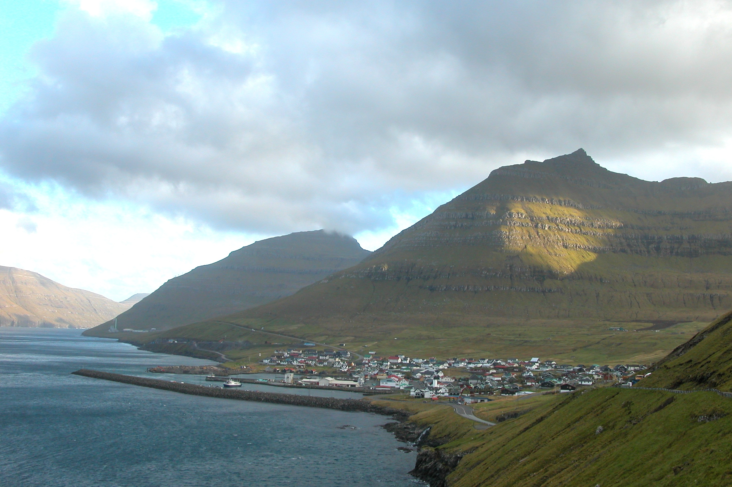 Leirvík in Eysturoy, Faroe Islands.